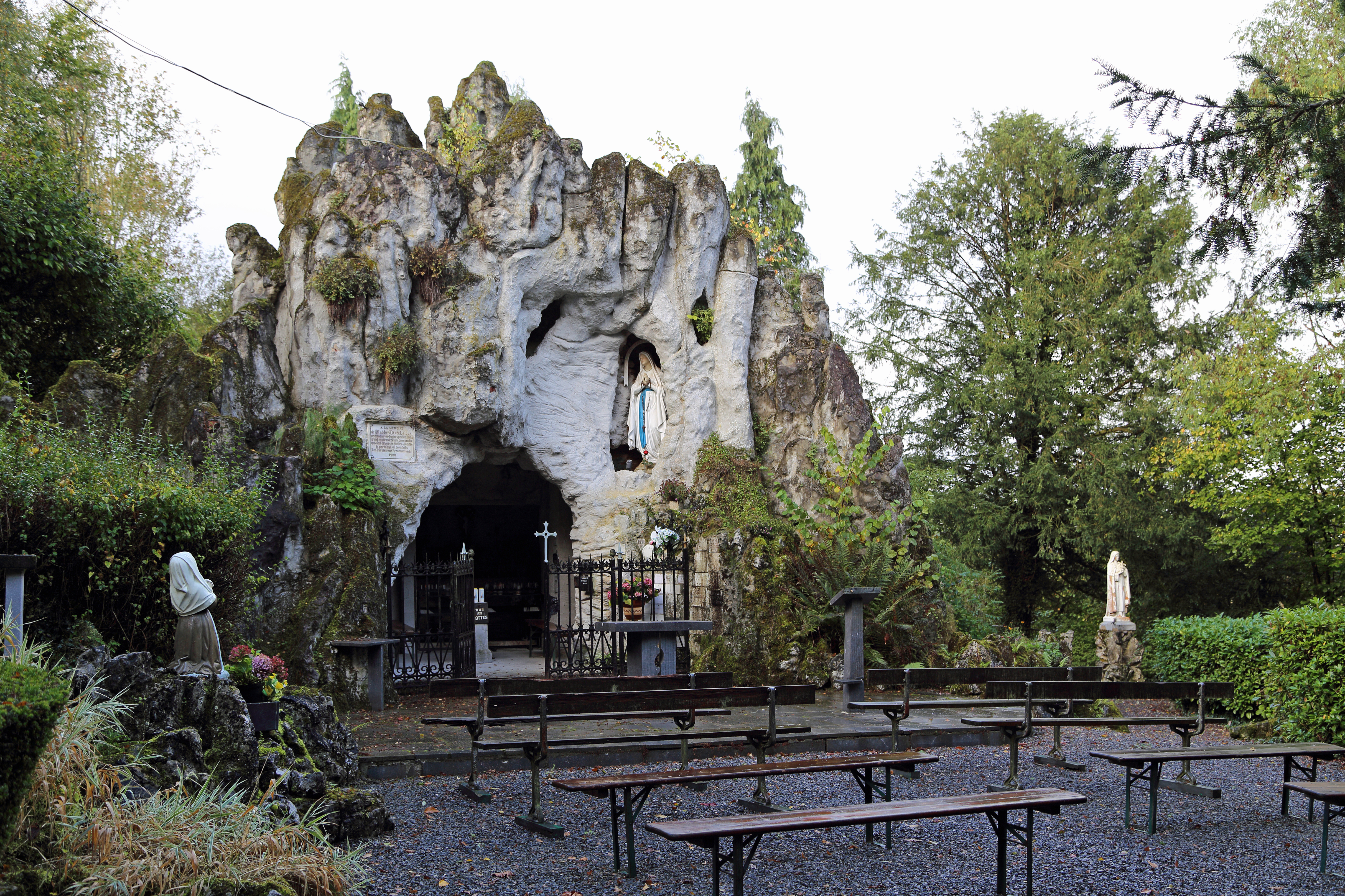 Conjoux (municipality of Ciney, province of Namur, Belgium): Lourdes grotto